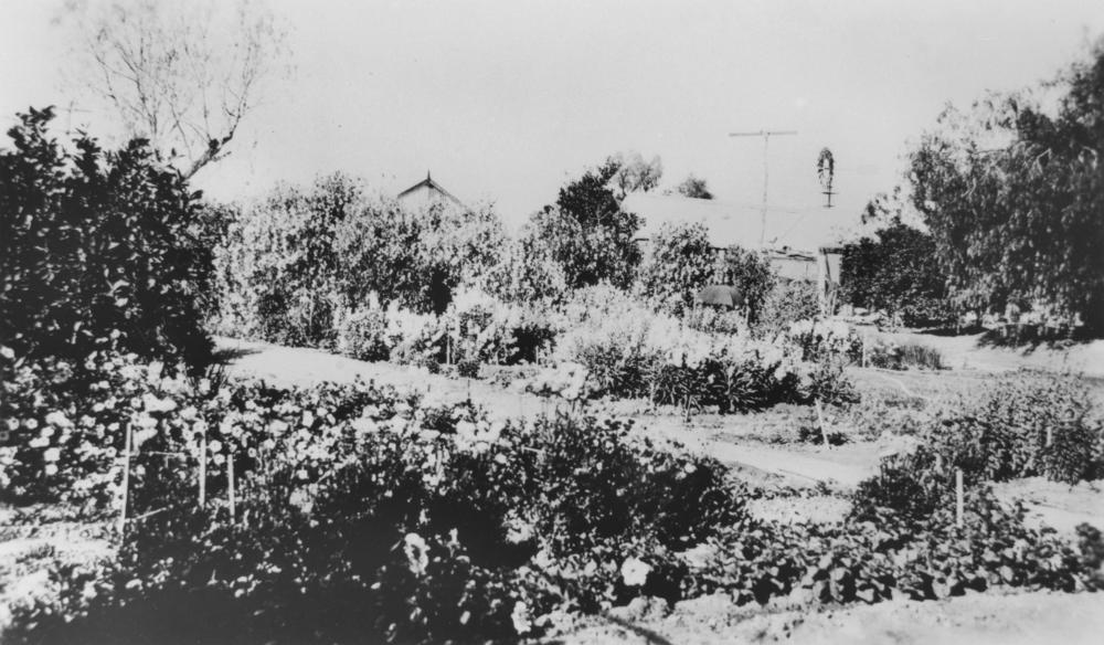 Beautiful garden at Thylungra Station, Western Queensland, 1924